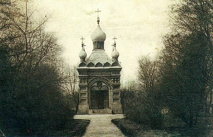 A chapel in Kyiv. Demolished by the bolsheviks in the 1930-s